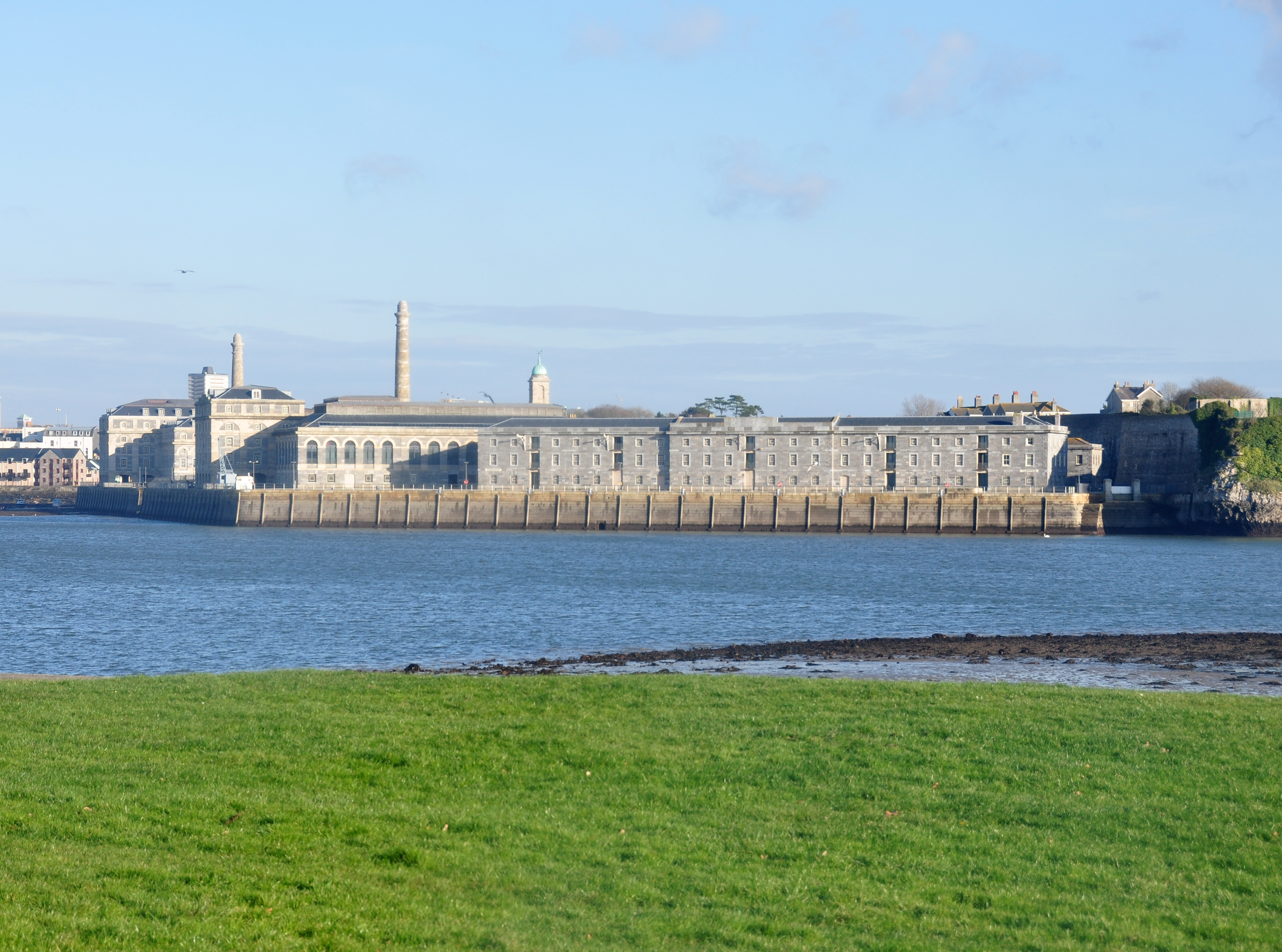 View across the Hamoaze from Cremyll, towards the Royal William Yard.